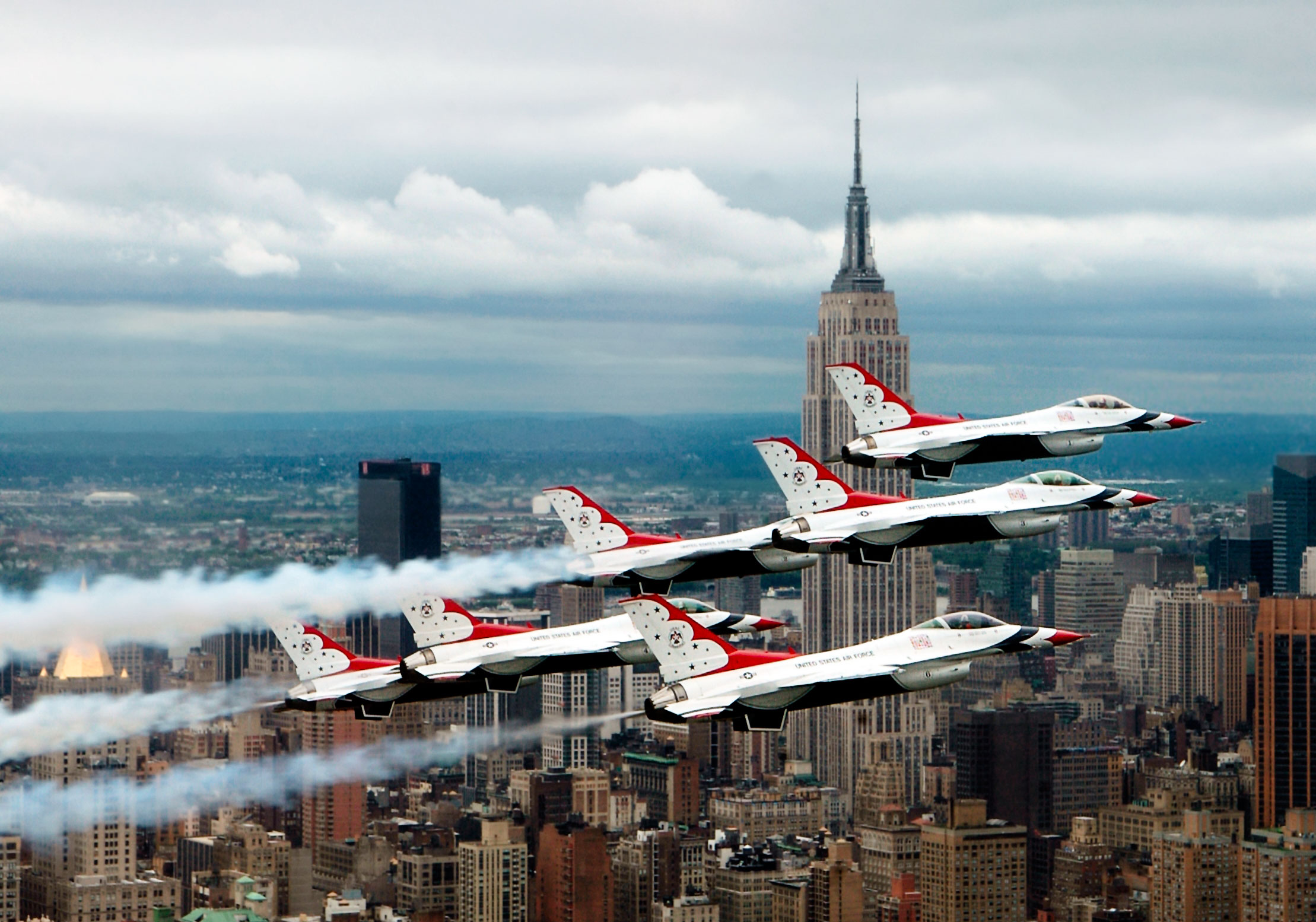 NEW YORK -- Six F-16 Fighting Falcons with the U.S. Air Force Thunderbirds aerial demonstration team fly in delta formation in front of the Empire State Building during an air show May 26. (U.S. Air Force photo by Tech. Sgt. Sean Mateo White) Edited from original--rotated 0.8 degrees clockwise, increased saturation and contrast.